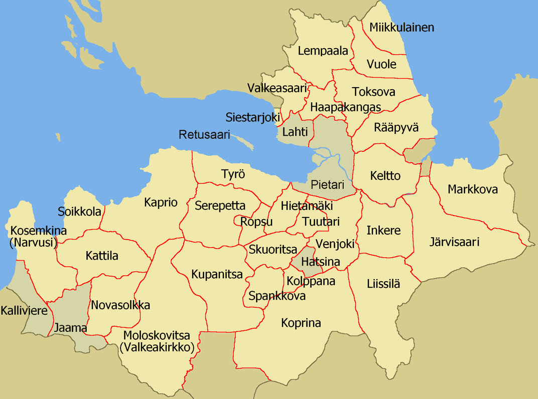 Revision and accompaniment of the names Lutheran receipts.